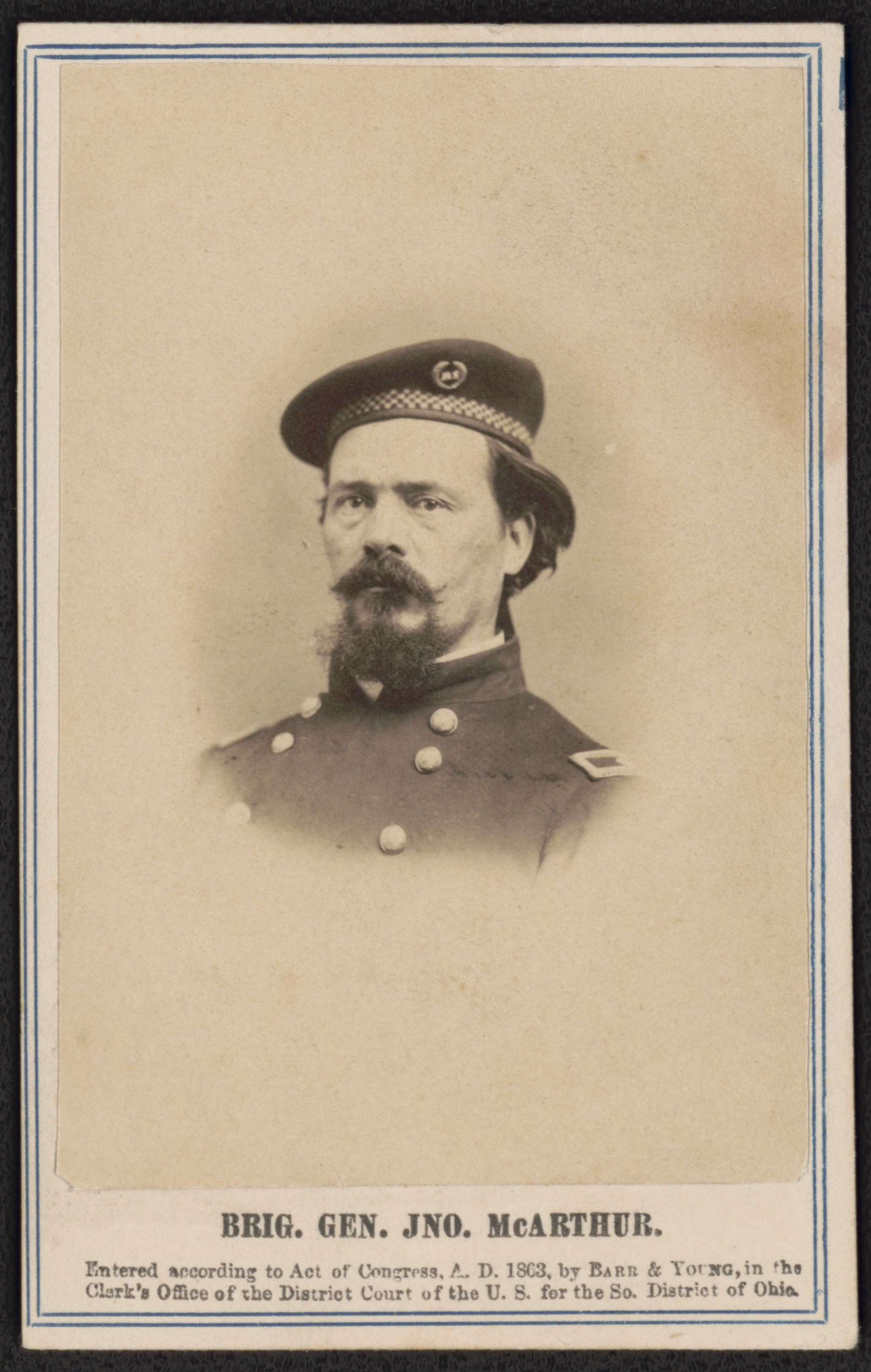 Title: Brig. Gen. Jno. McArthur / Barr & Young, Army photographers, Palace of Art, Vicksburgh, Mississippi. Abstract/medium: 1 photograph : albumen print on card mount ; mount 11 x 6 cm (carte de visite format)